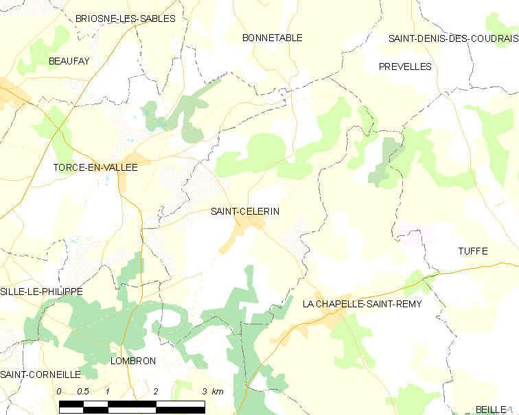 Map of French municipality